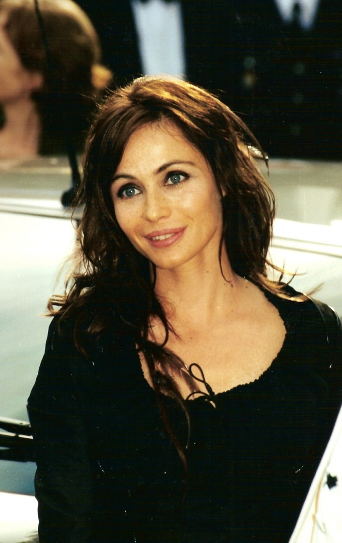 Emmanuelle Béart